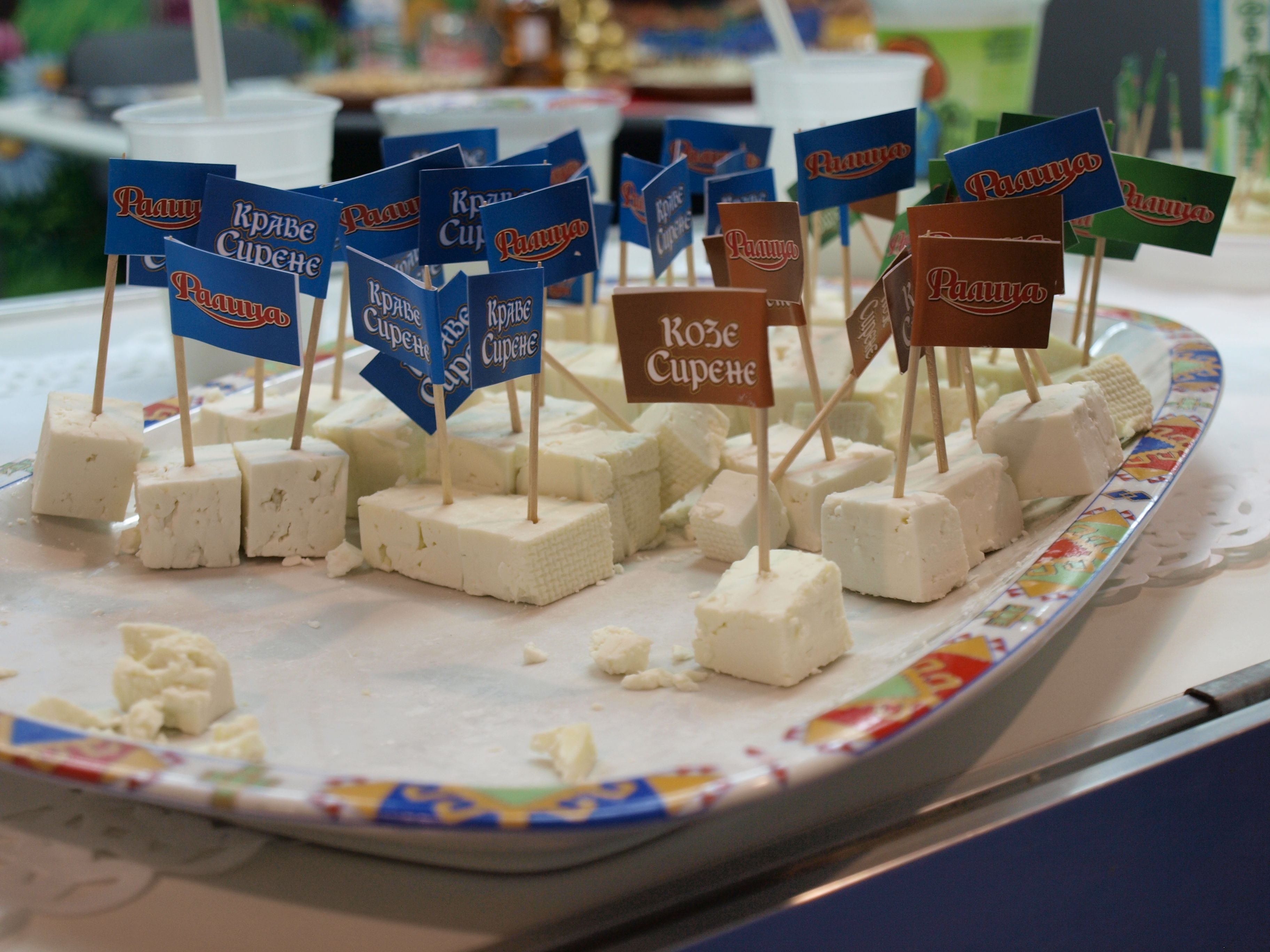 White brine cheese sliced in cubes for degustation.